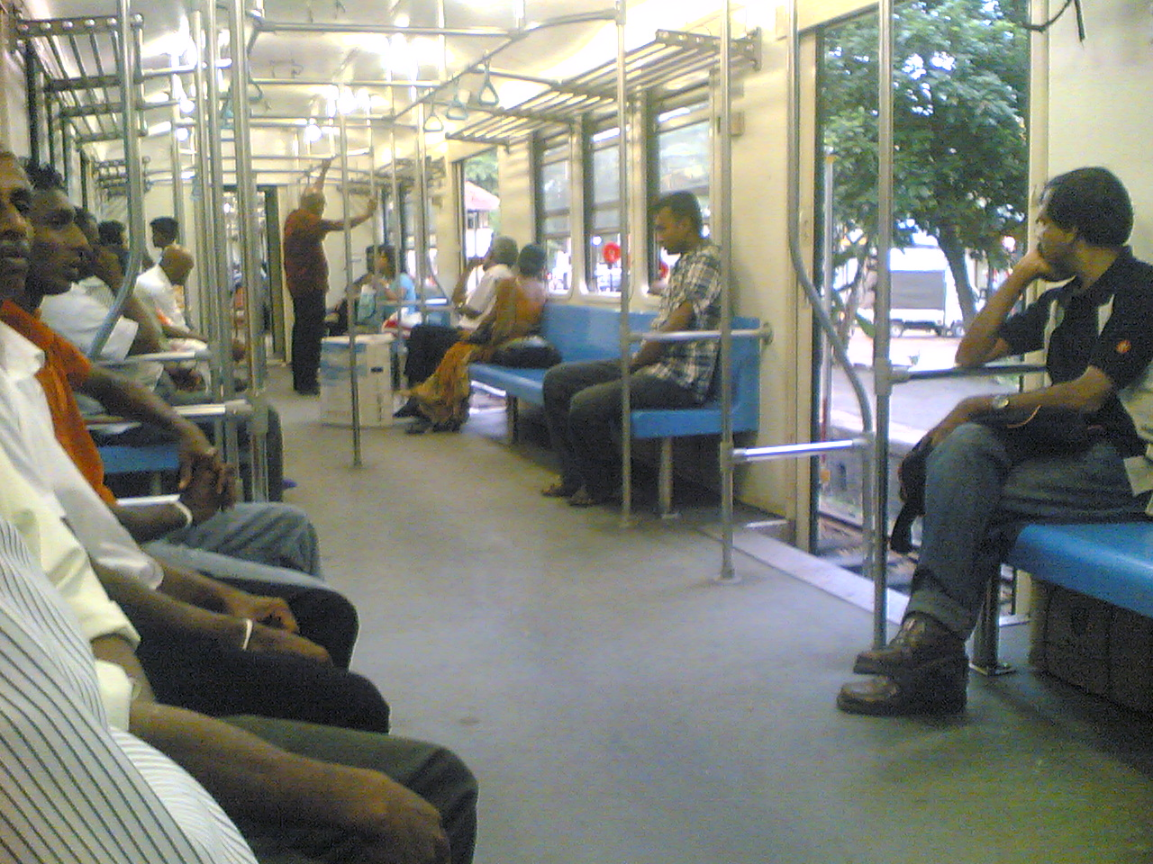 Inside a 3rd class passenger car of sri lanka railways class S10 commuter train